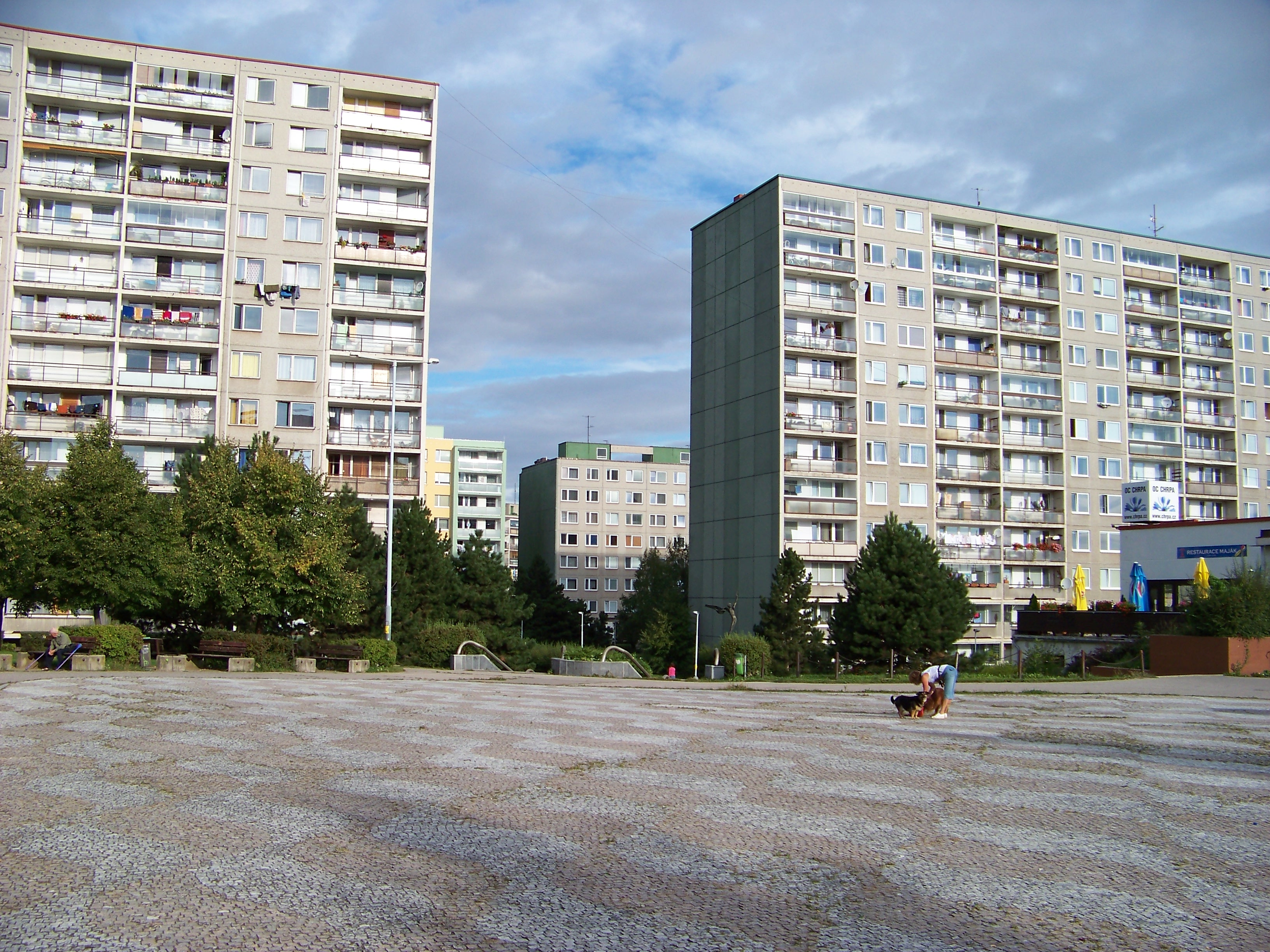 Prague-Chodov, the Czech Republic. Horní Roztyly Housing Estate, Pošepného Square.